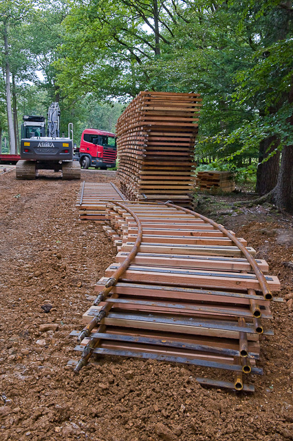 Warwickslade cutting: laying the railway